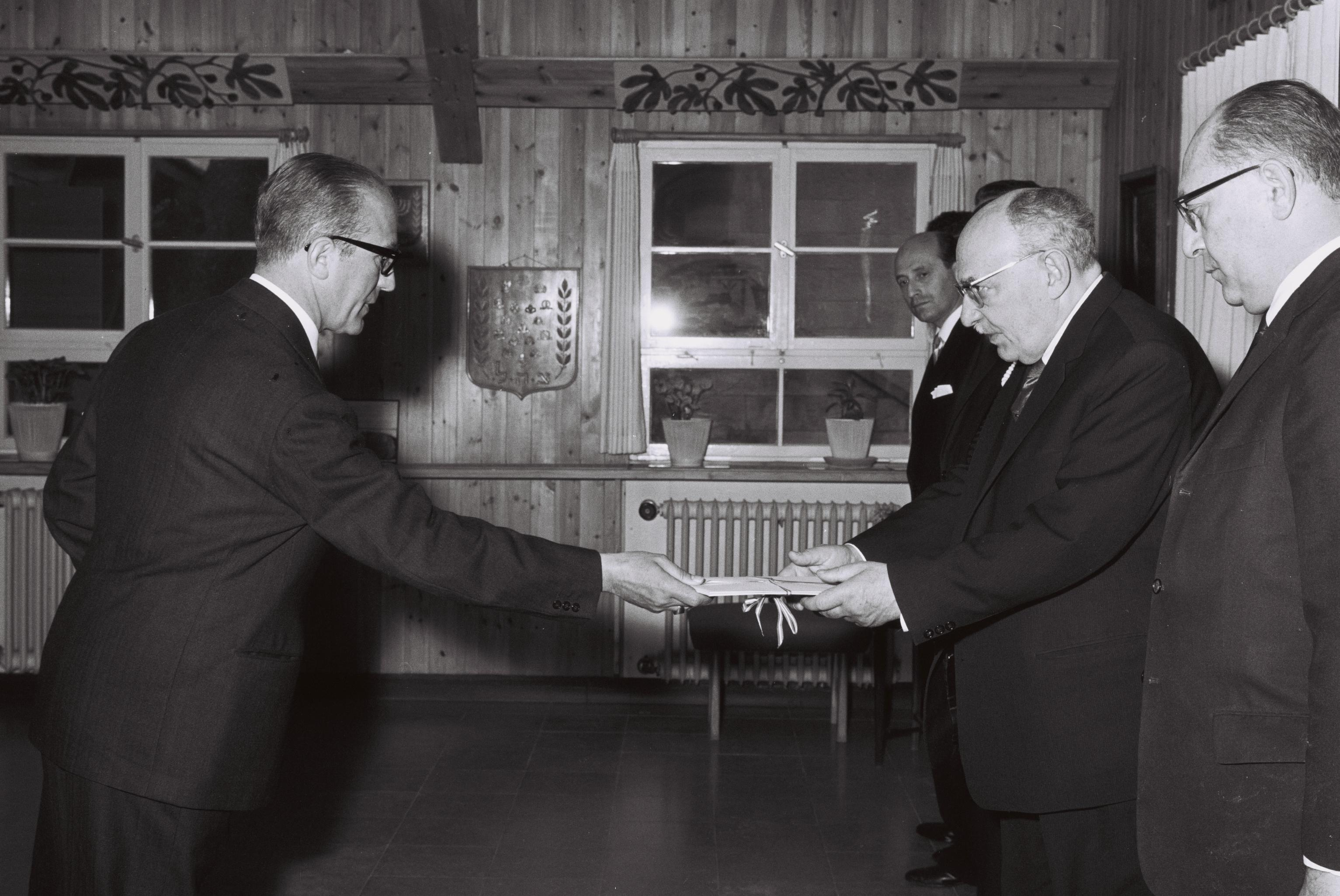 Mr. Aldo Peirantoni presenting his credentials as Italian ambassador to Israel to president Zalman Shazar at "Beit HaNassi" in Jerusalem.